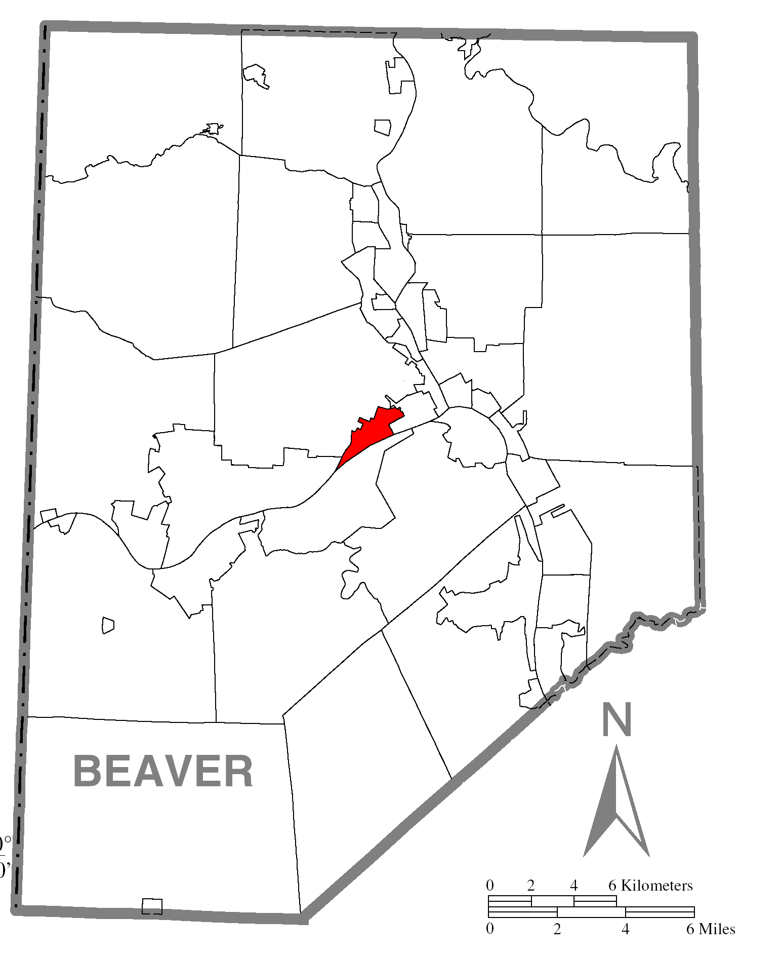 A map of Beaver County showing Vanport Township, Pennsylvania (alternate) highlighted on the map.